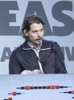 Lucas Pope at the 2014 Game Developer Conference. March 19, 2014